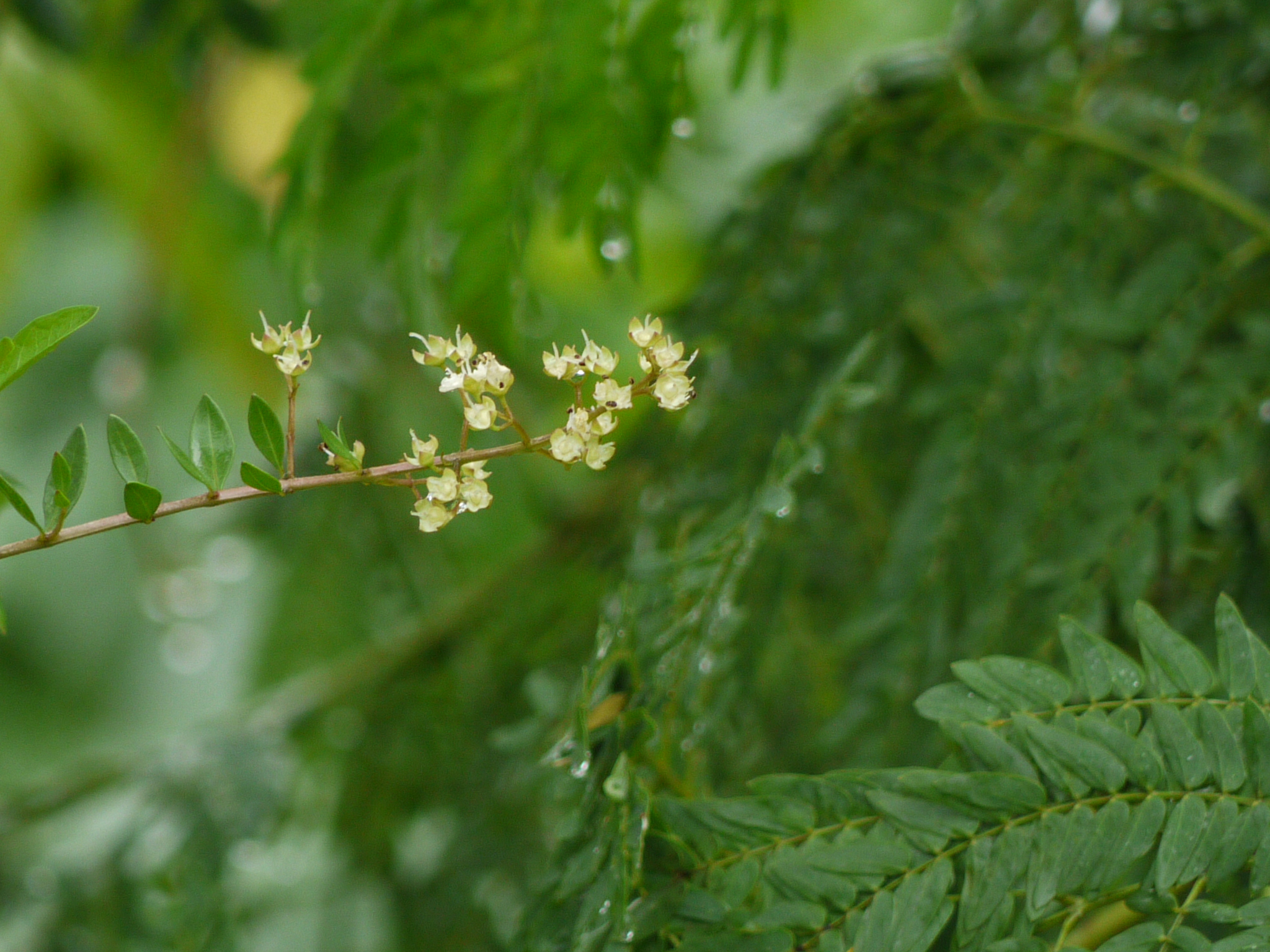 camphire, Egyptian privet, henna, Jamaica mignonette, mignonette tree, smooth lawsonia, Zanzibar bark • Filipino: cinamomo •